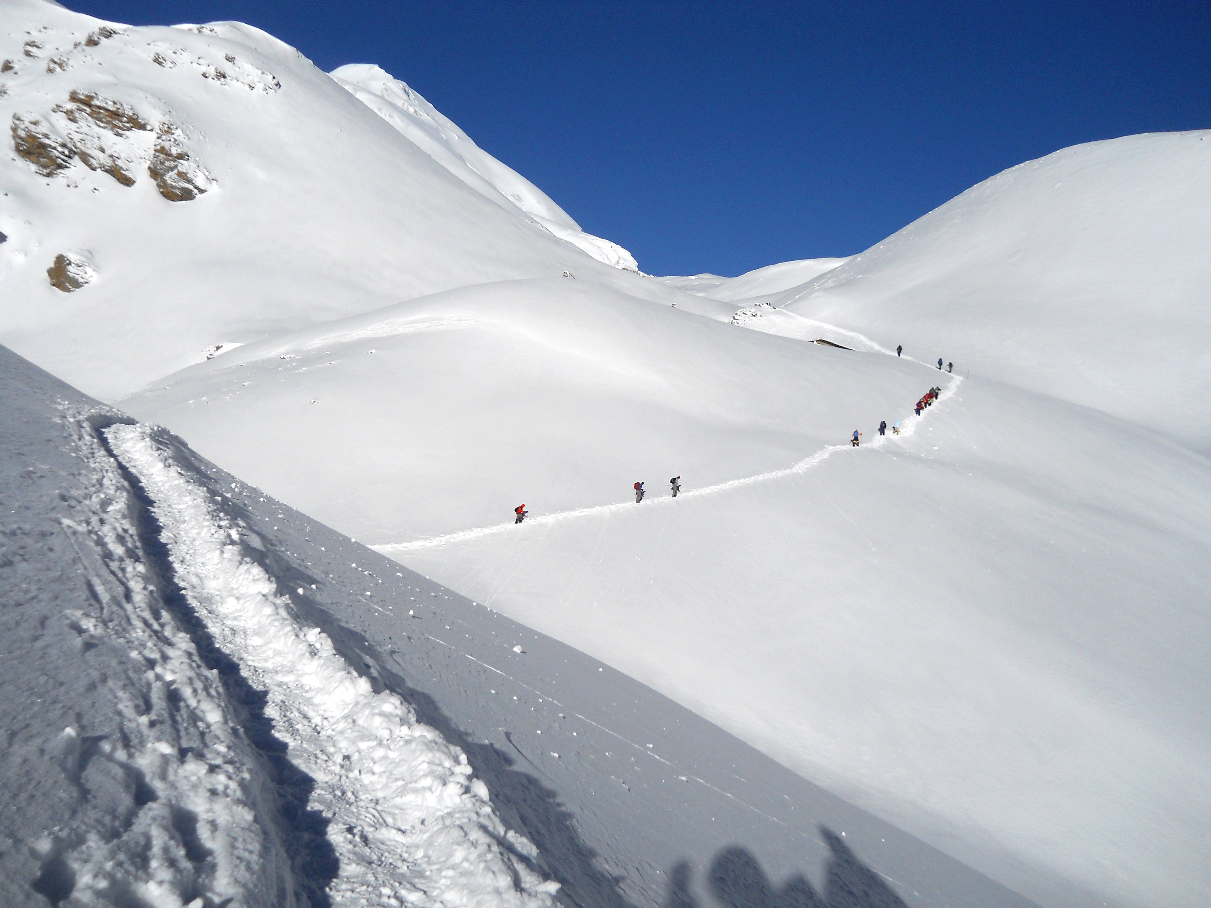 view of trekking route to Thorong La